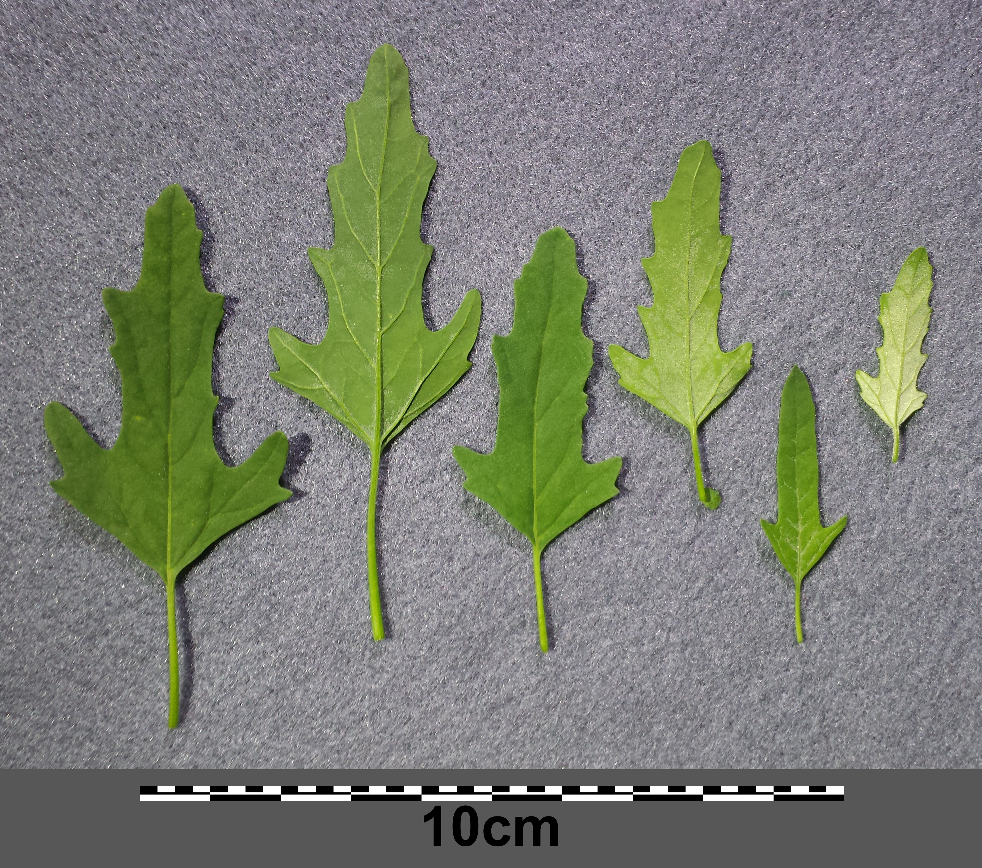 Leaves Taxonym: Chenopodium ficifolium subsp. ficifolium ss Fischer et al. EfÖLS 2008 ISBN 978-3-85474-187-9 Location: Nordmanngasse, Donaufeld, Vienna-Floridsdorf - ca. 160 m a.s.l. Habitat: humid field